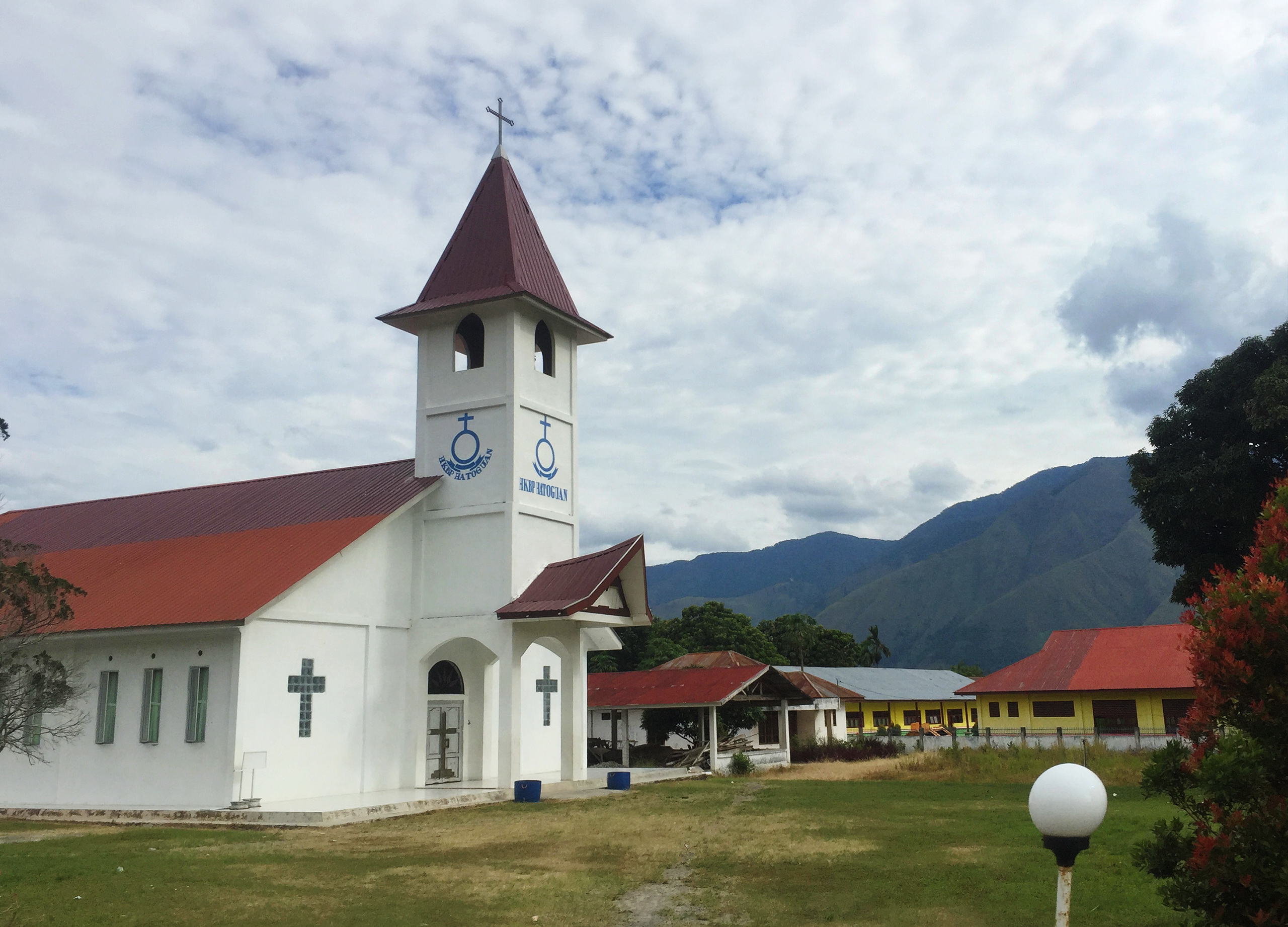 HKBP Hatoguan, Church in Hatoguan, Palipi, Samosir